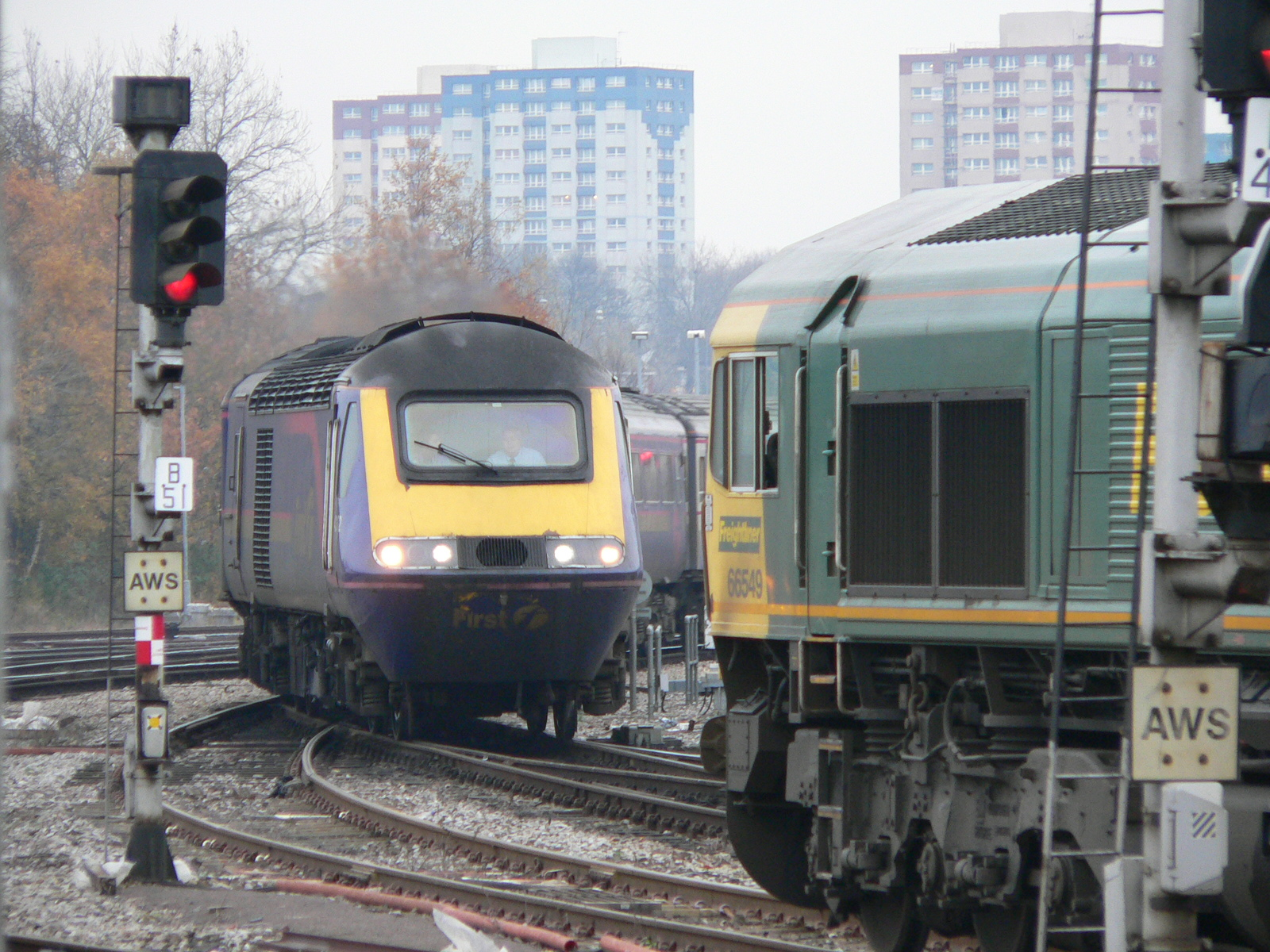 Freightliner Class 66 diesel locomotive 66549 is held at red singal B51 immediately north of Bristol Temple Meads to allow an unidentified First Great Western HST access to the station.